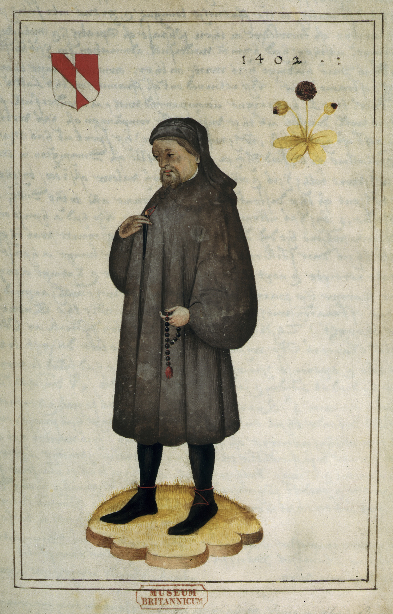 Portrait of Chaucer (Whole folio) Portrait of Chaucer, with his arms at top left: Per pale argent and gules, a bend counterchanged.